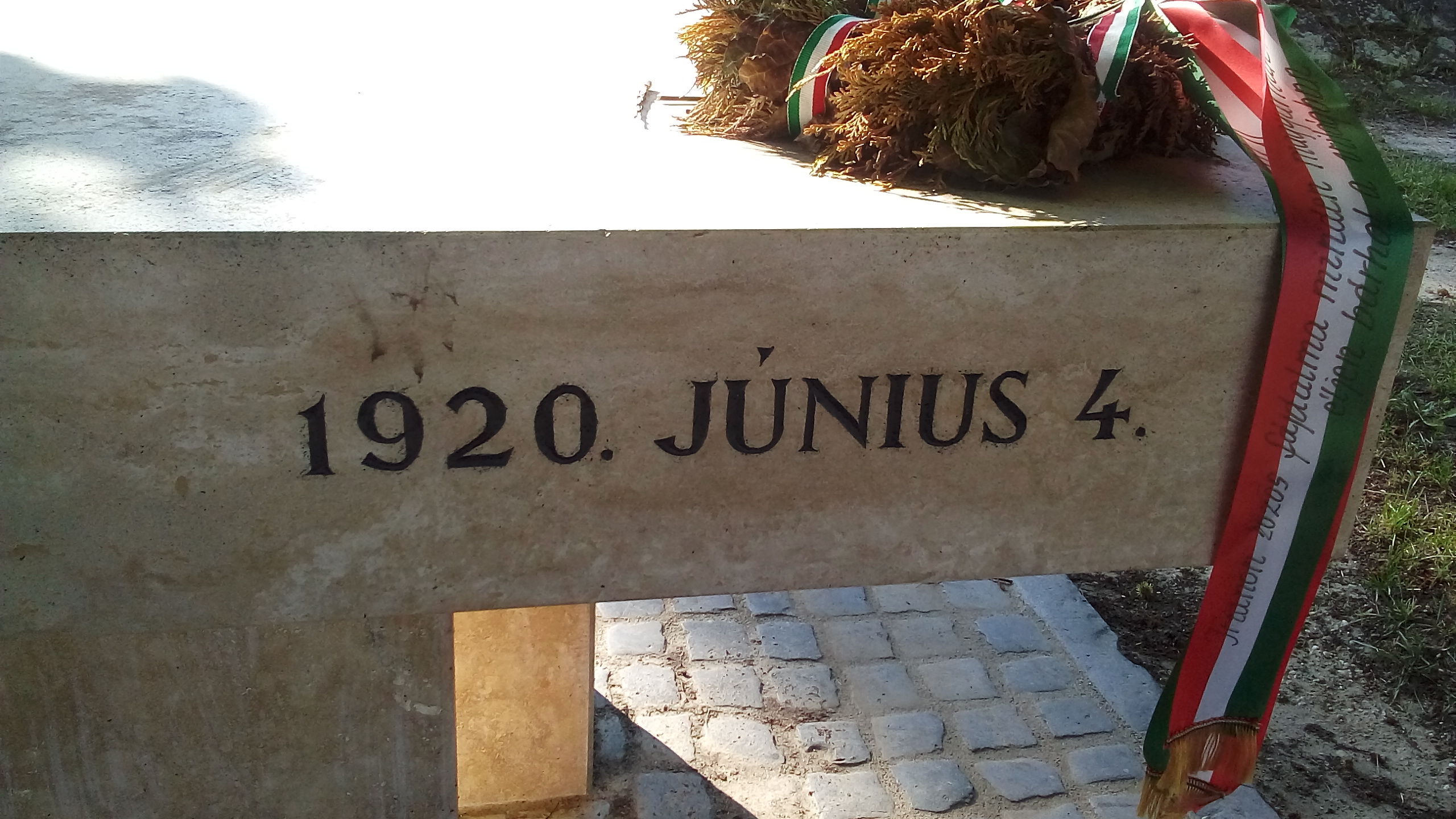 Trianon Memorial in Paks, Hungary, built in 2014